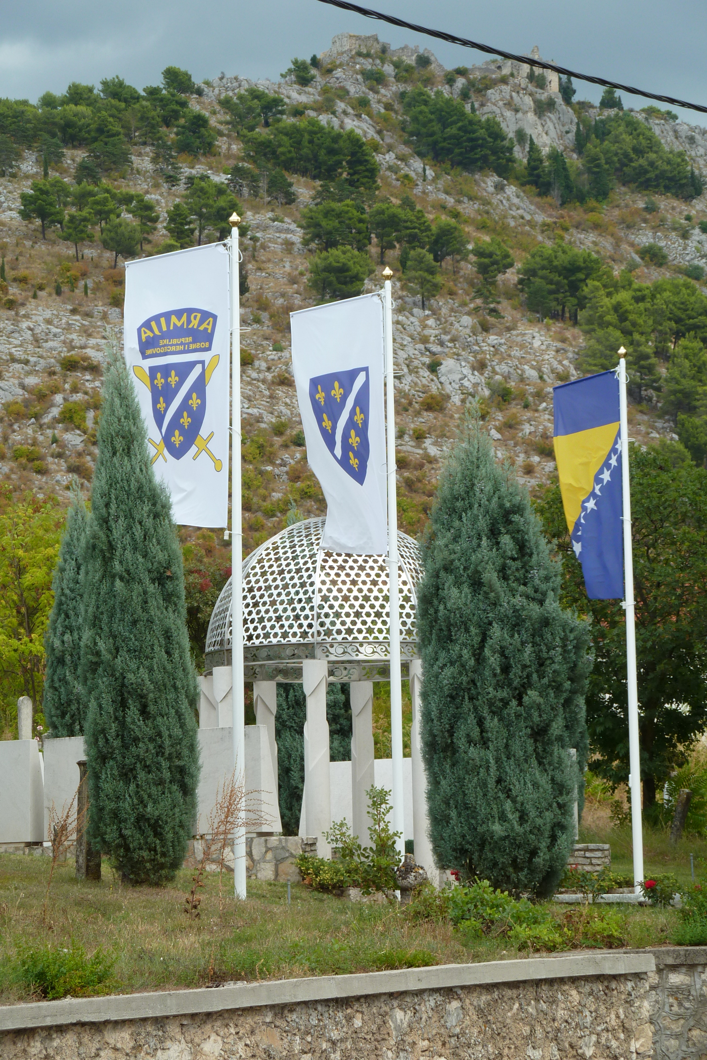 Flags of Bosnia and Herzegovina in Blagaj: Army flag till 1995 (left), national flag till 1998 (centre), national flag since 1998 (right).